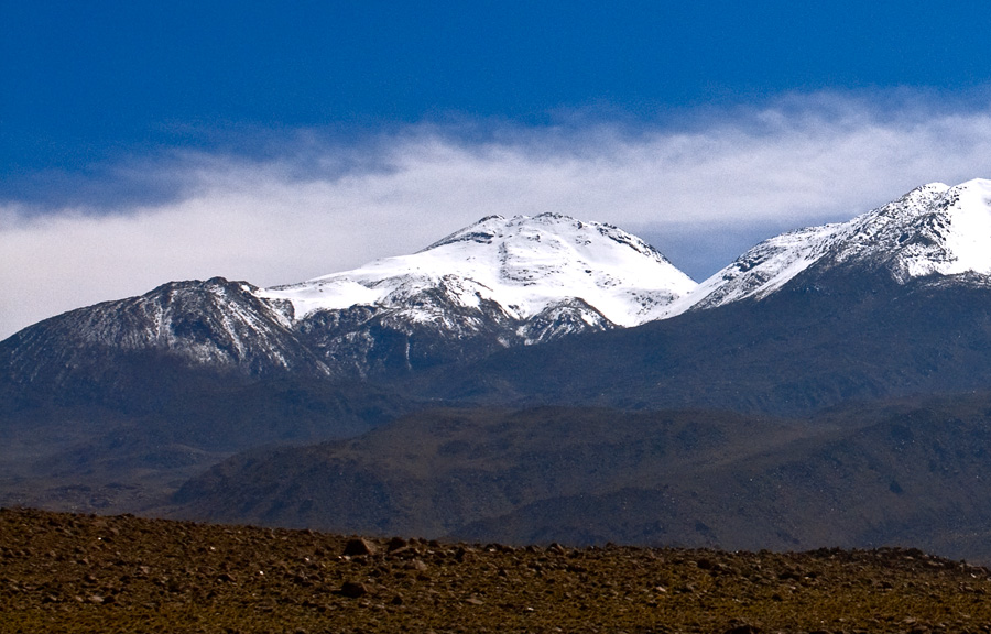 The Escalante volcano lies on the northern end of the Sairecabur volcanic group, SE of Cerro Colorado an SW of the Curiquinca volcano.